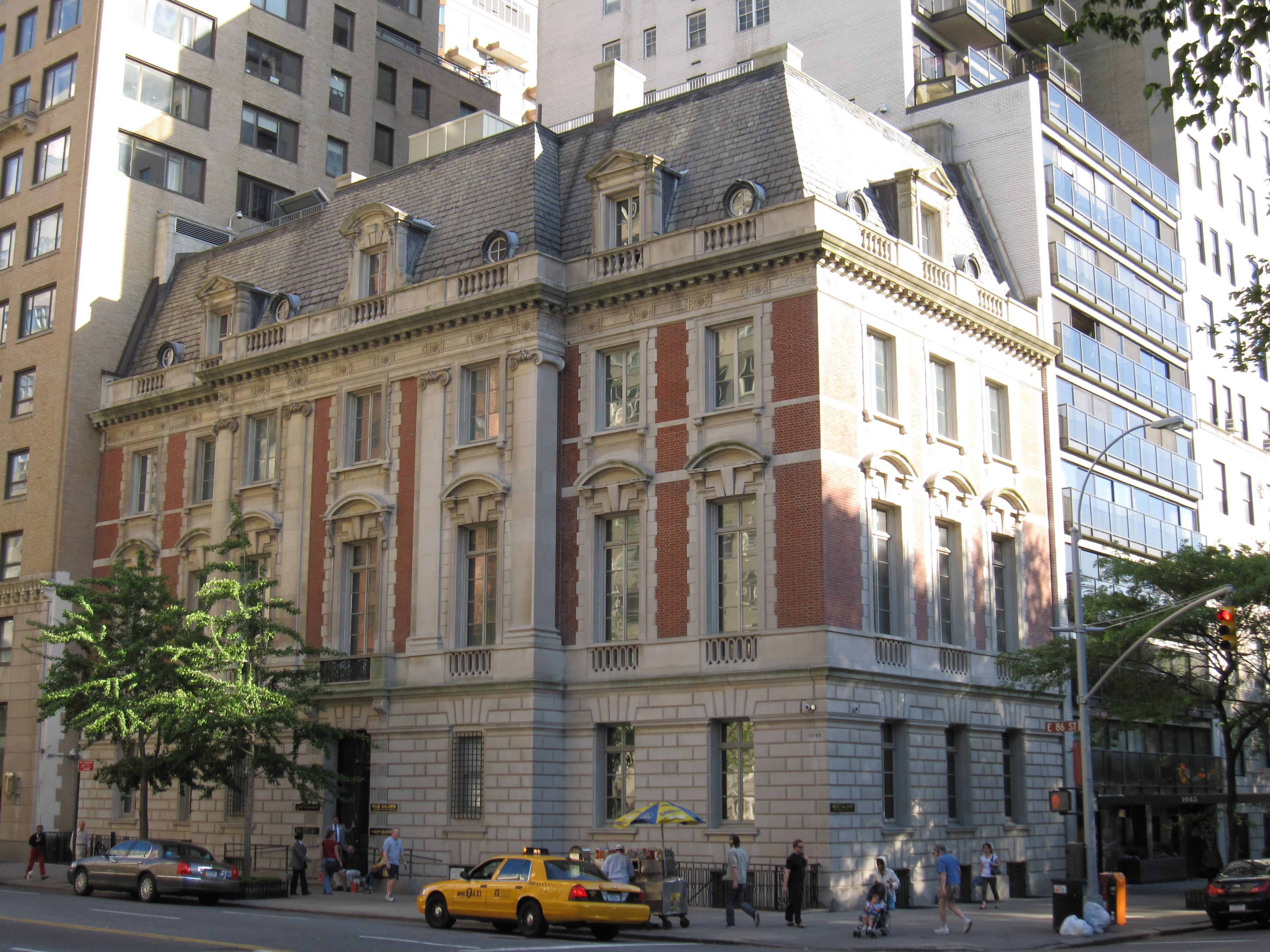 1048 Fifth Avenue